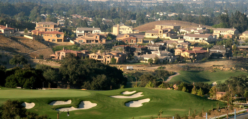 View of Chino Hills (city), and the Chino Hills (landform). Located in San Bernardino County, Southern California.